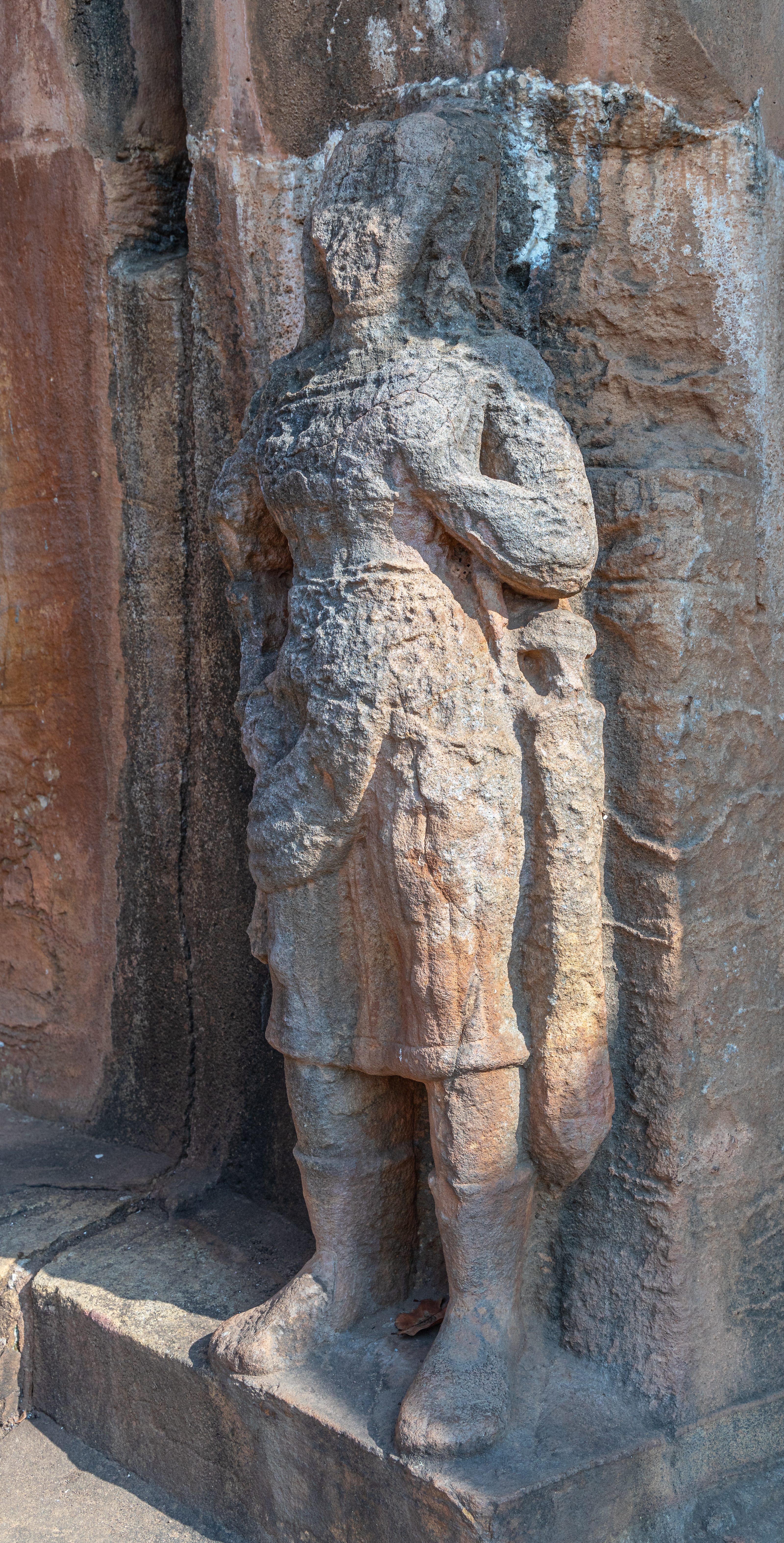 Yavana warrior (proper left side), Udayagiri and Khandagiri Caves